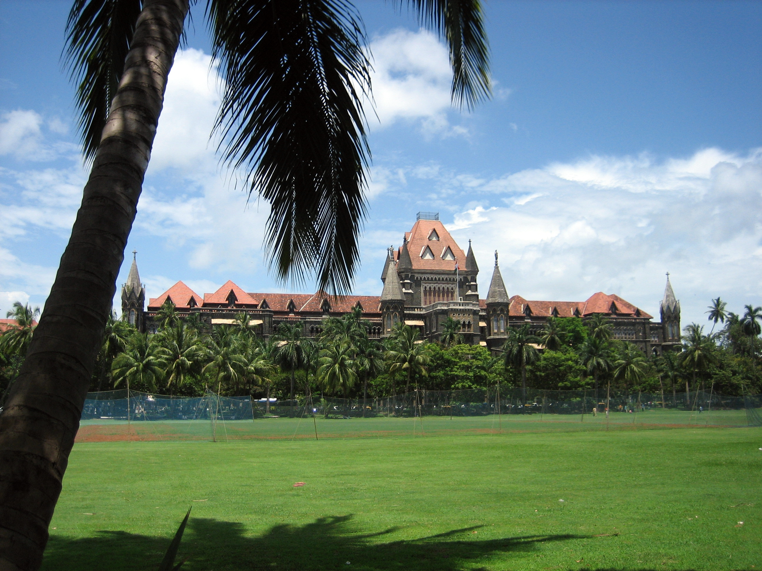 Bombay (Mumbai) - The High Court from afar with Oval Maidan in the foreground